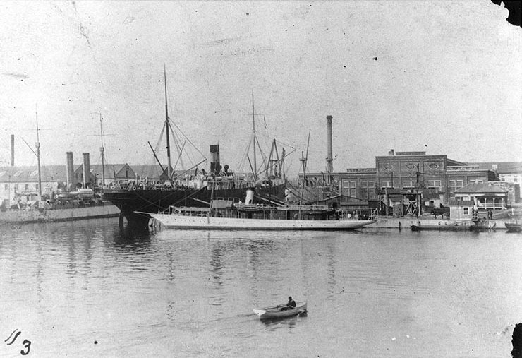 Presidential yacht USS Sylph (PY-5) at the Norfolk Navy Yard, Portsmouth, Virginia, circa late 1905. USS Ajax (1898-1925) is in the left center, behind Sylph's bow, with the decommissioned cruiser San Francisco forward of her. At left is USS Atlanta (1886-1912), barracks ship for torpedo boats. Courtesy of Ted Stone, 1986.